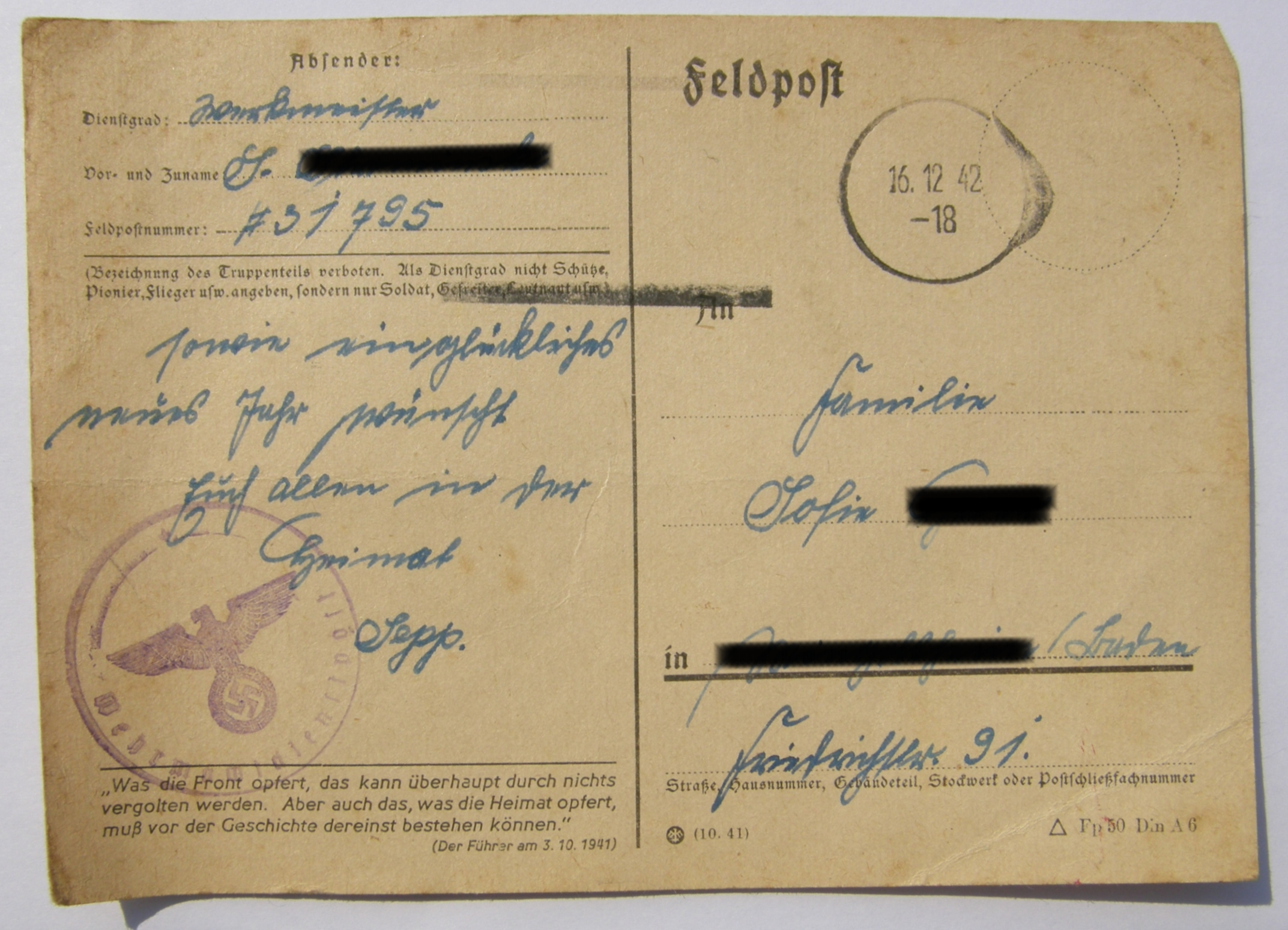 War-postcard /WW 2.